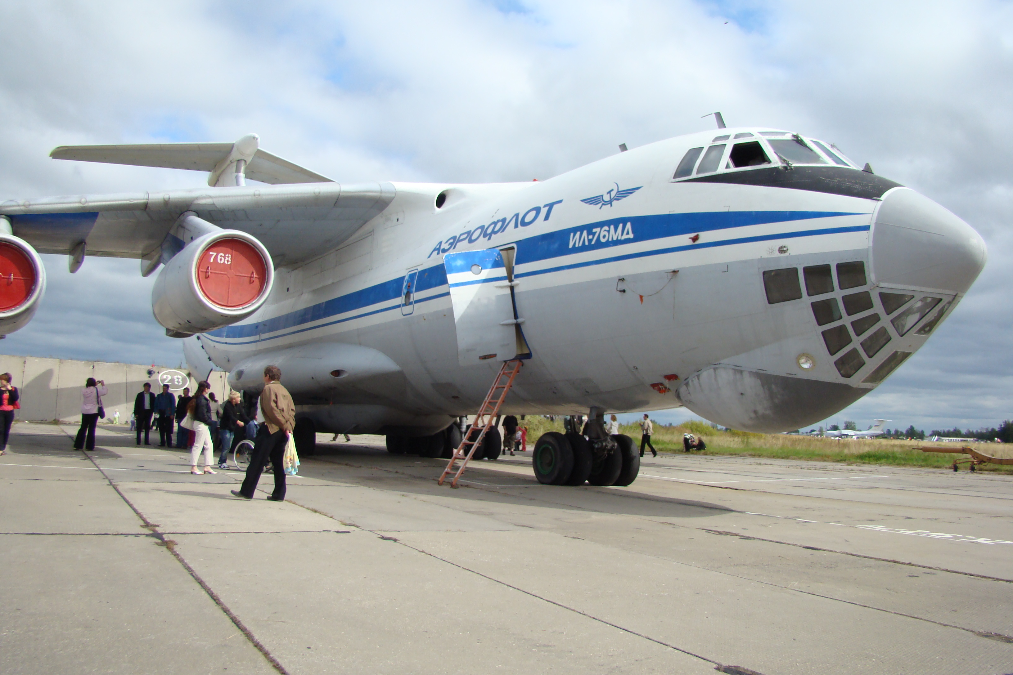 Ilyushin Il-76MD (Krechevitsy) Ил-76МД